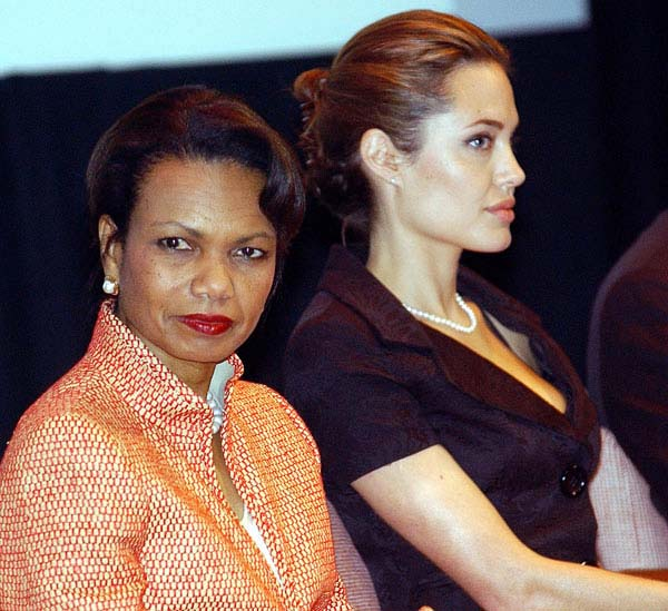 Angelina Jolie and Condoleezza Rice during the World Refugee Day at the National Geographic Society